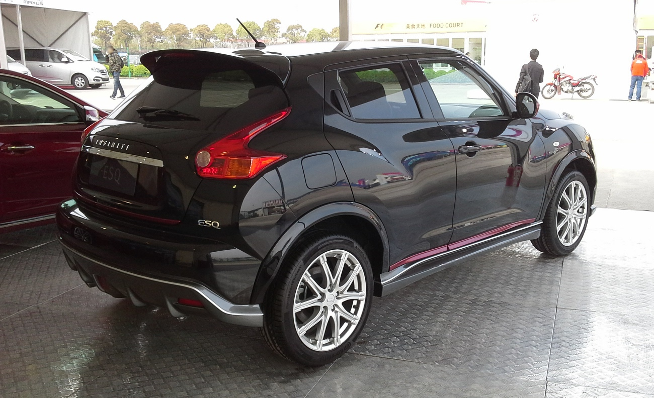 Infiniti ESQ photographed in Anting, Shanghai municipality, China.